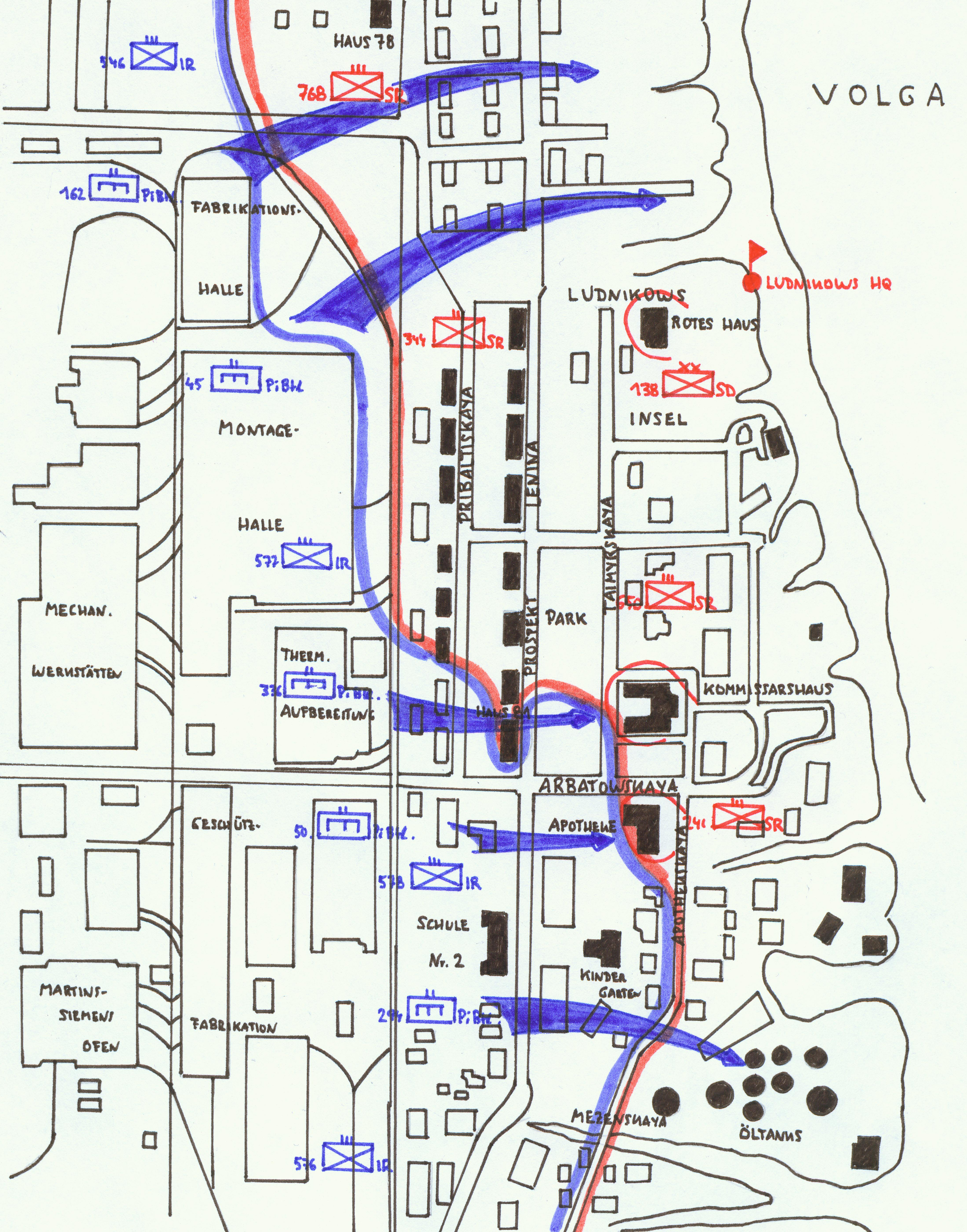 sketch drawn outline according to Glantz